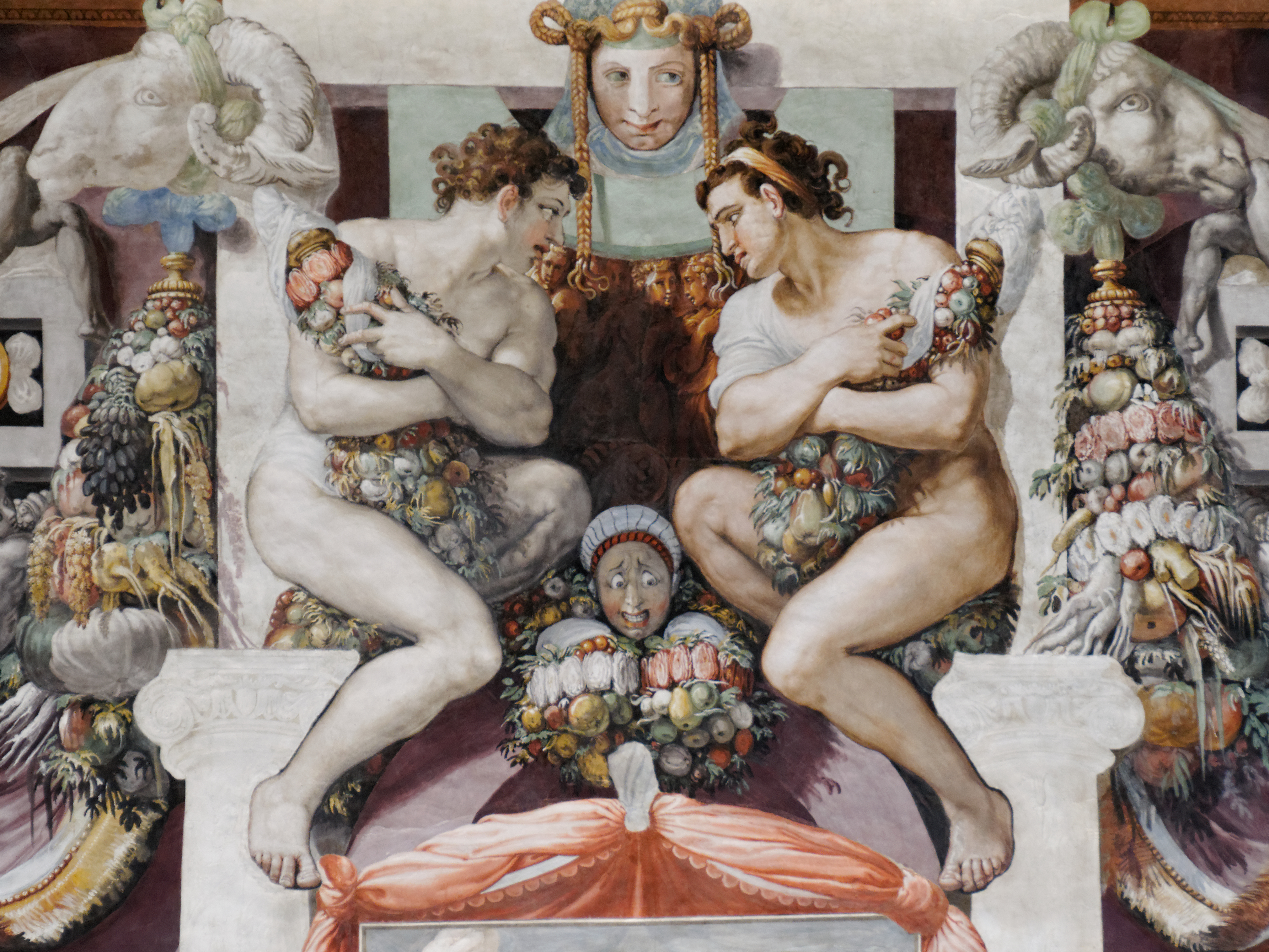 Painted decoration.